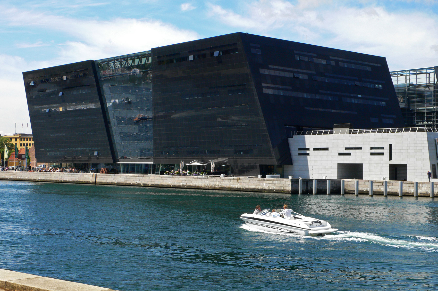 The Black Diamond extension of the Royal Danish Library in Copenhagen, Denmark